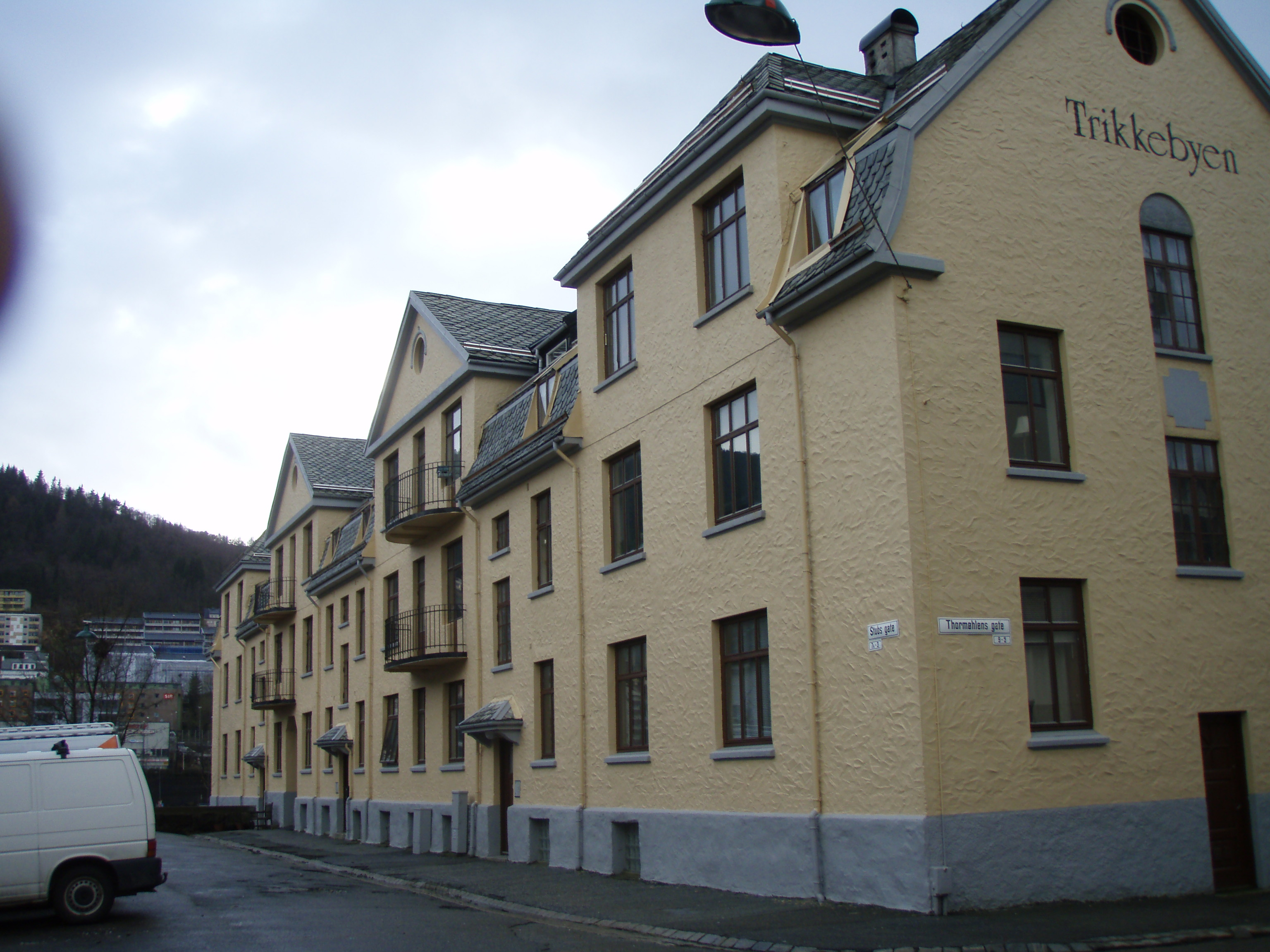 southern facade of "Trikkebyen", Bergen, Norway